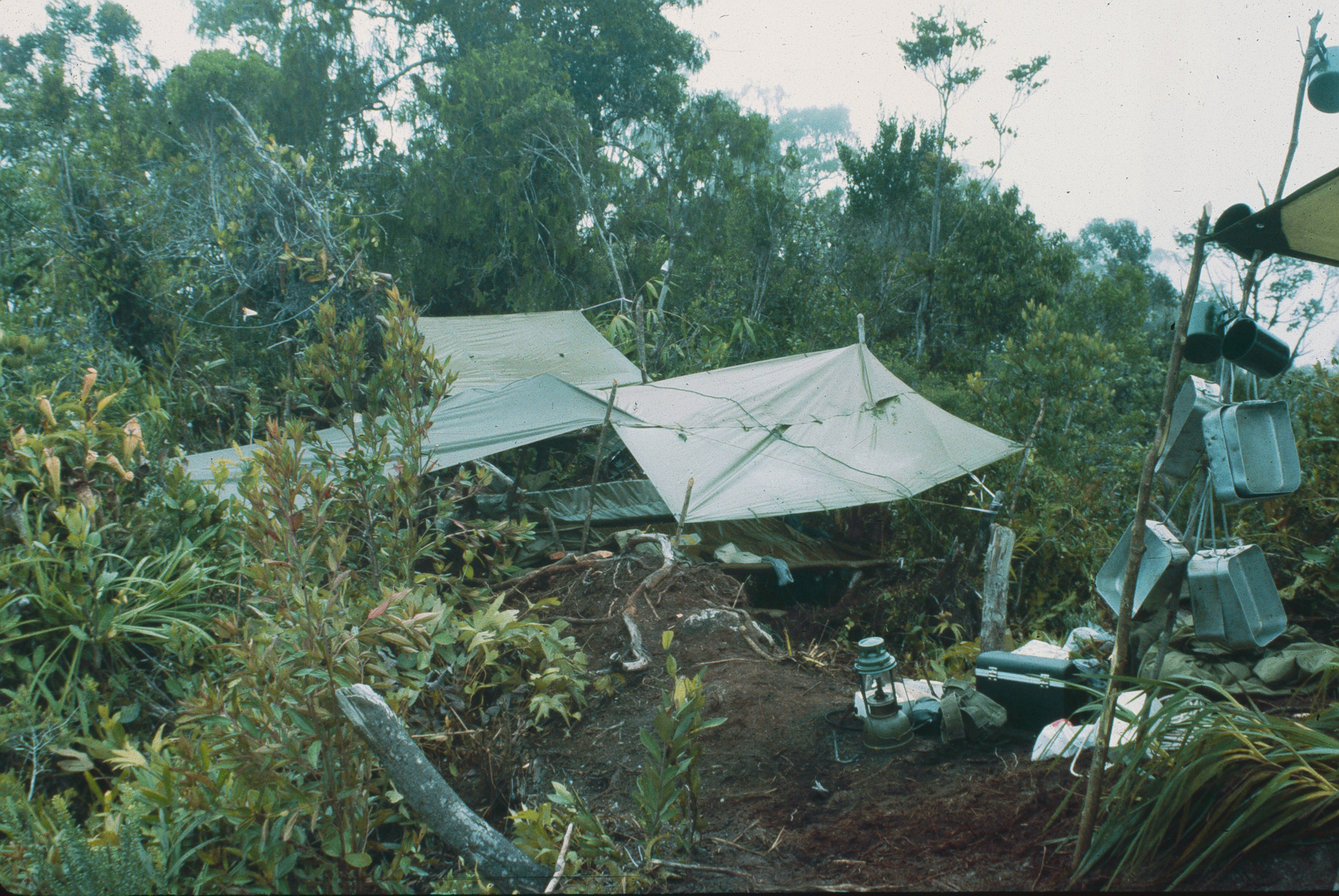 Camp on the ridge of Bukit Pagon during Ulu Temburong expedition of 1982. Alan Cassidy photo.